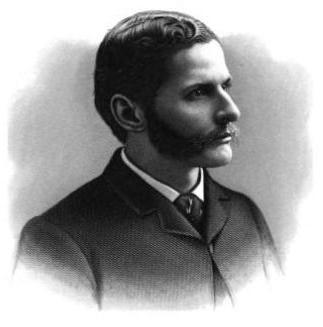 Edward C. Kilbourne, Seattle, Washington dentist and businessman, important figure in the development of street railways and of City Light, the public electric utility.